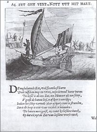 Emblem from Images of Love by Jan Harmensz Krul, Amsterdam 1640